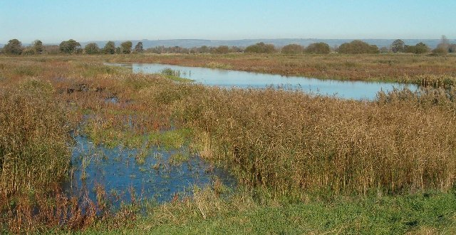 Flooded Peat Workings, Sharpham.